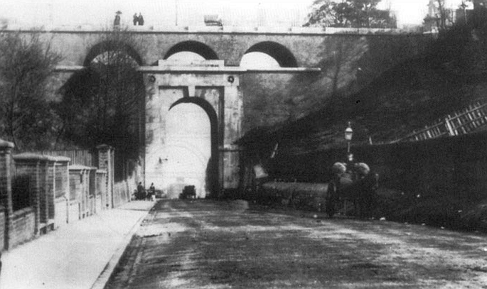 Photograph of the original brick bridge at Archway, London designed by John Nash. The picture was taken prior to 1897 when the new bridge was being constructed.